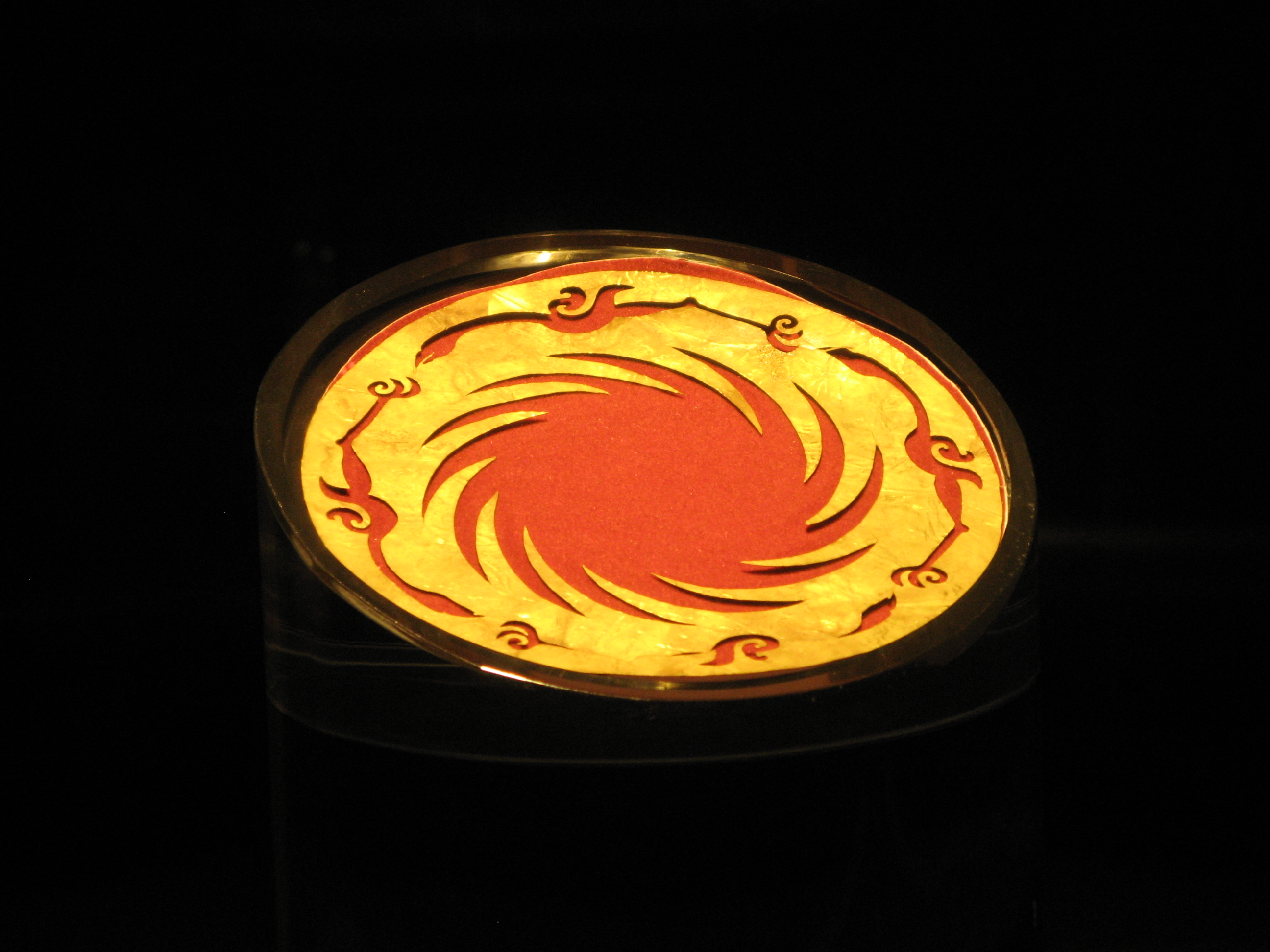 Gold ornament with solar birds (Taiyang Shenniao Jinshi). Jinsha archaeological museum, Chengdu Four sunbirds in cut-out fly around a central sun with twelve spiral rays. In 2011, the striking pattern was selected as Chengdu's official logo.